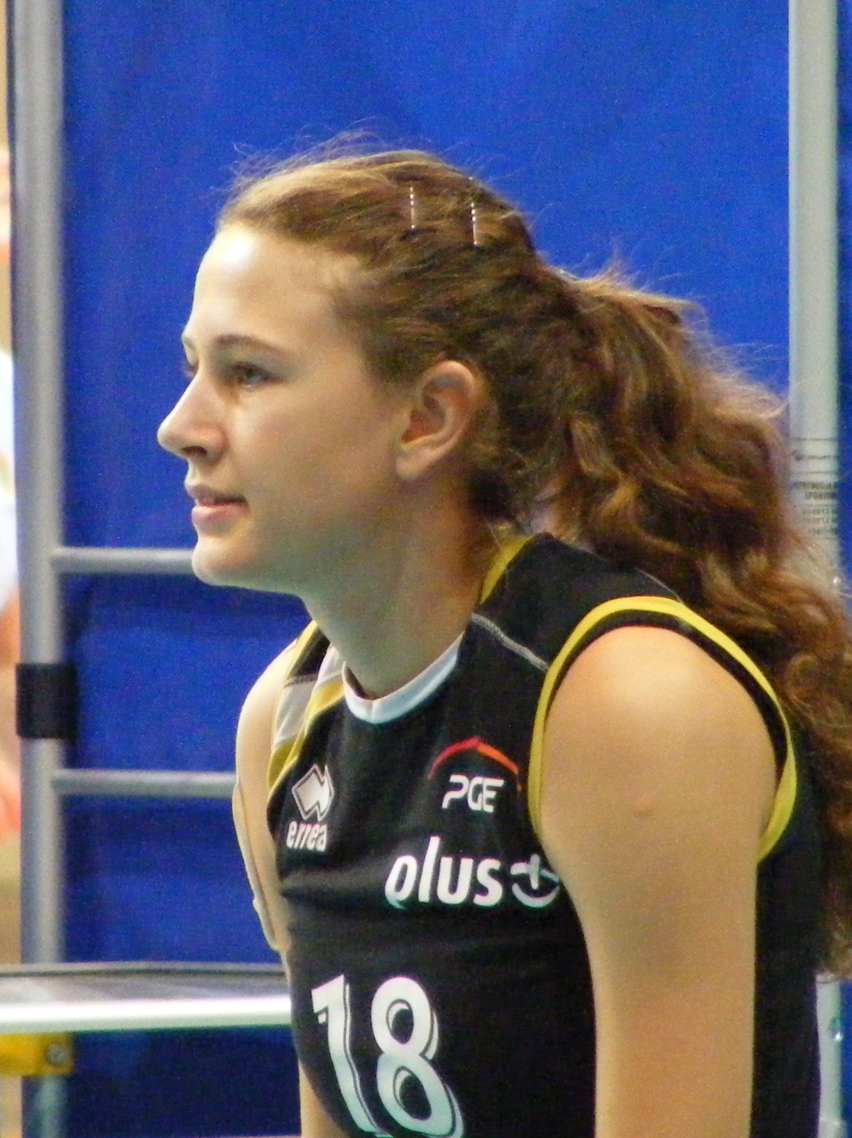 Meryem Boz, turkish volleyball player